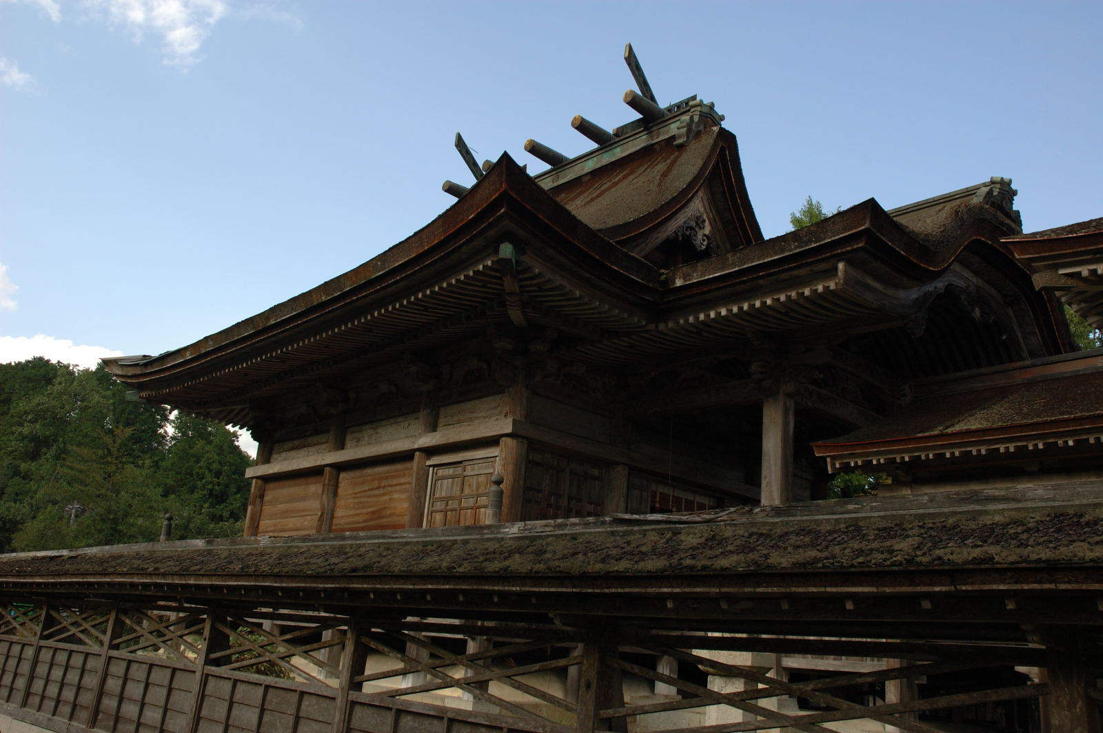 Main shrine of Nakayama Jinja(Japan's national important cultural property)Its architectural style is called Nakayama-zukuri.